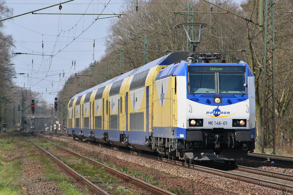 A class 146 locomotive of the (privat) metronom railway group, near Radbruch, between Hamburg and Lüneburg